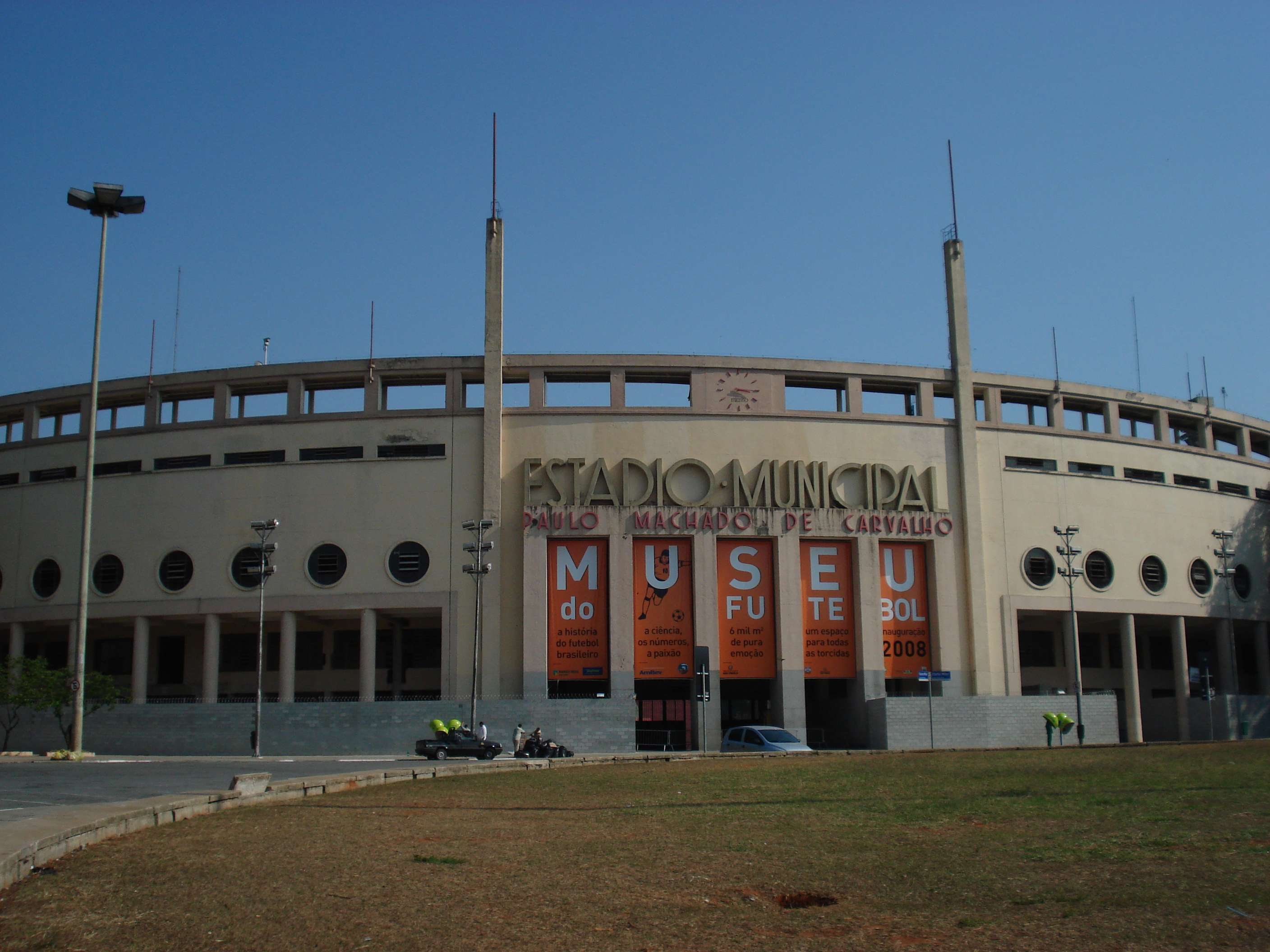 Main entrance to Estádio Municipal Paulo Machado de Carvalho, also knwon as Estádio do Pacaembu, in São Paulo, São Paulo, Brazil.